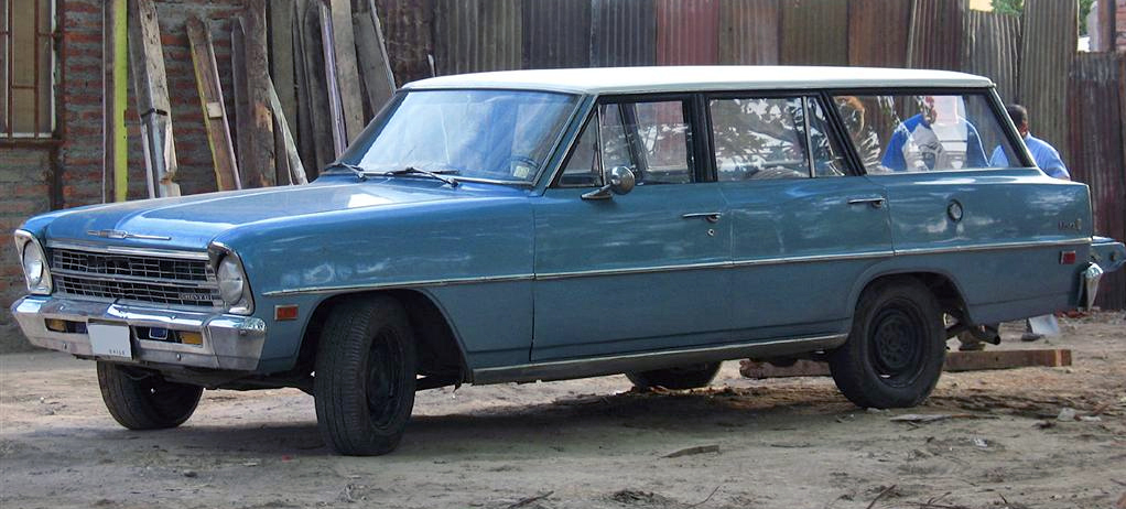 Chevrolet Chevy II Nova Wagon (1967)